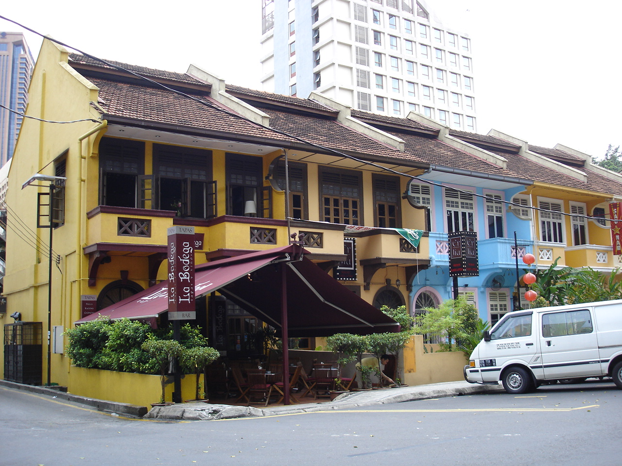 Old pre-war terraced houses refurbished into trendy restaurants and backpackers' lodging along Tengkat Tong Shin in central Kuala Lumpur.